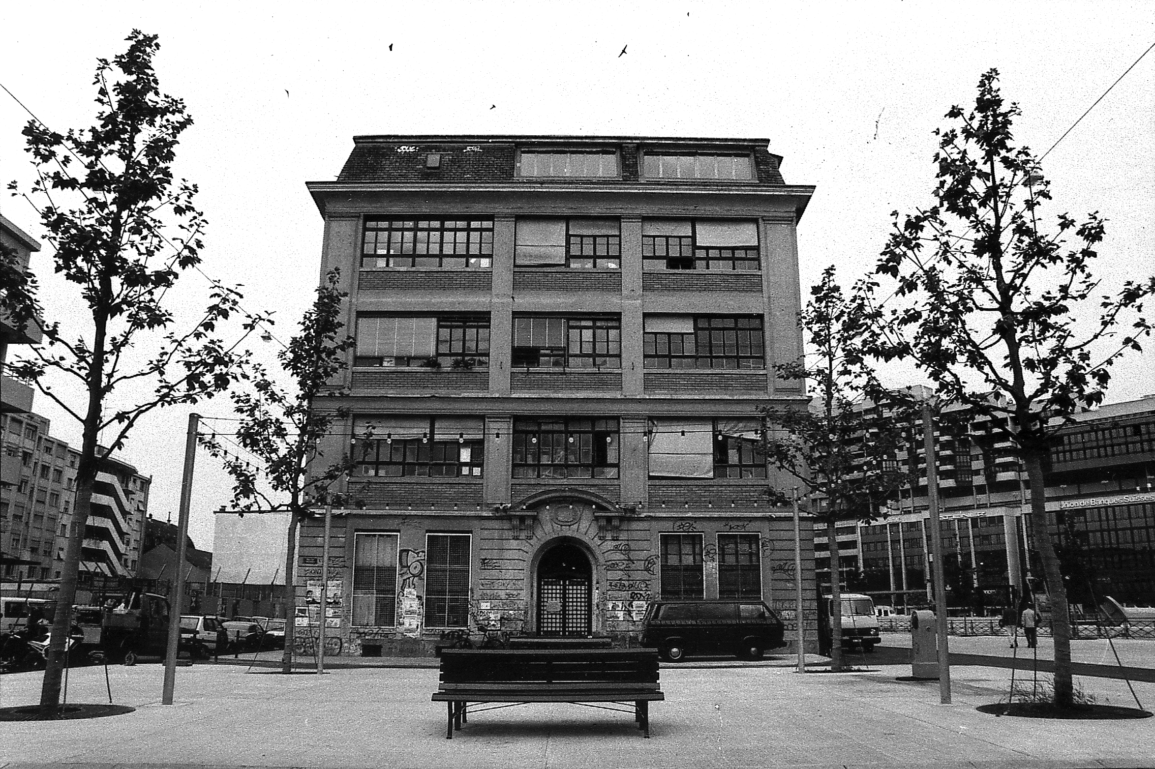 l'Usine